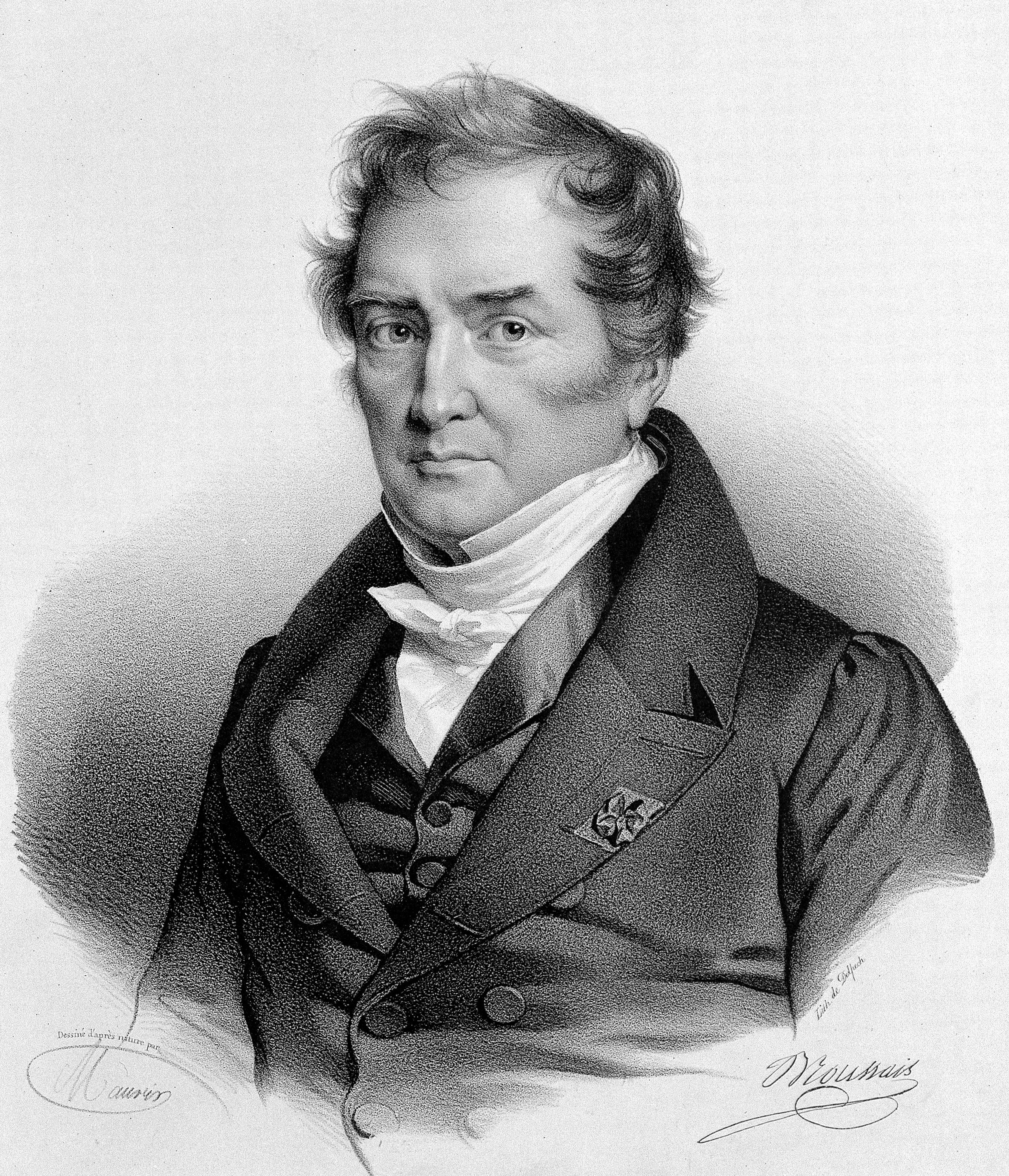 Portrait of Francois Joseph Victor Broussais, aged about 45